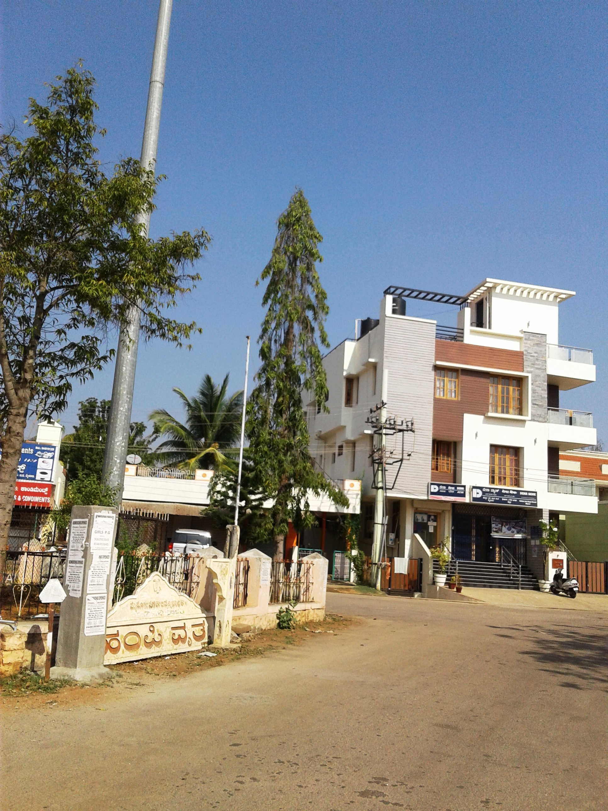 Vijayanagar, Mysore north, Karnataka, India.